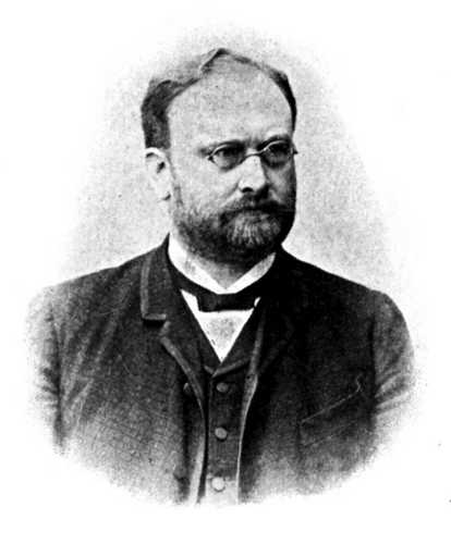 Johannes Orth (1847-1923), german anatomist and pathologist